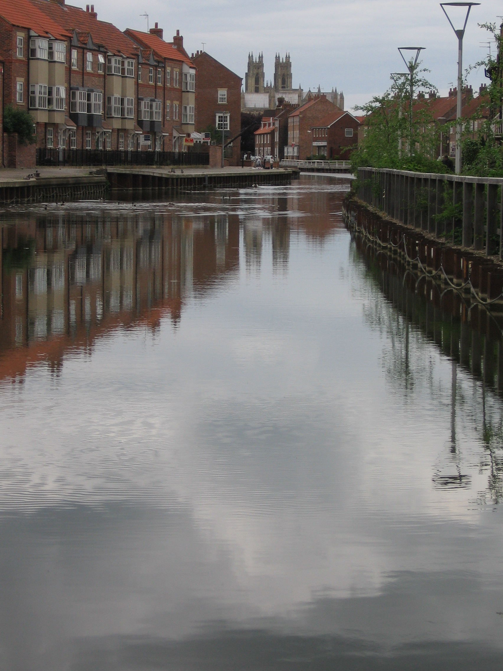 Beverley Beck, Beverley, East Riding of Yorkshire, England.